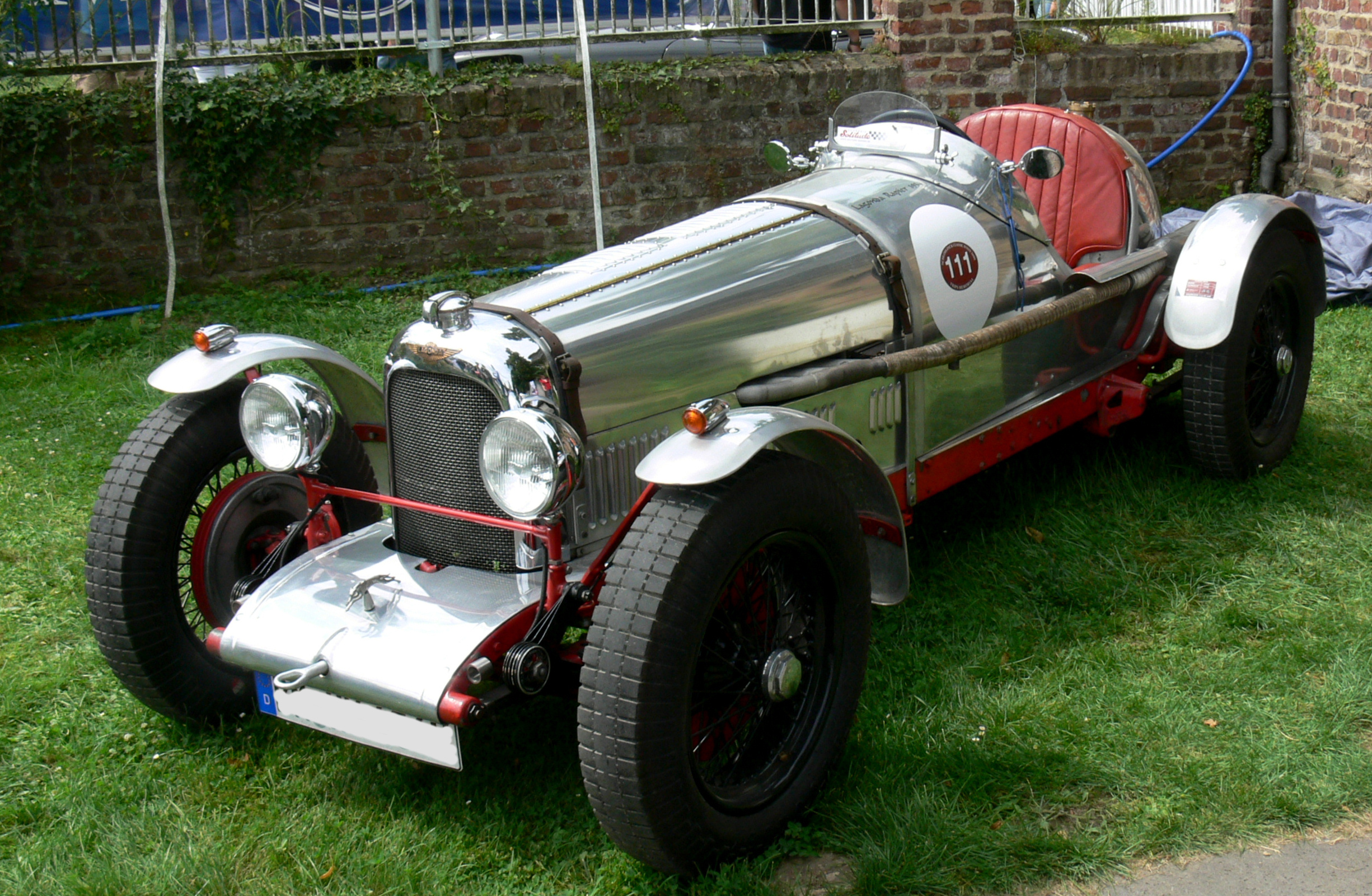 Lagonda Rapier (1957) at Dyck Castle, Germany